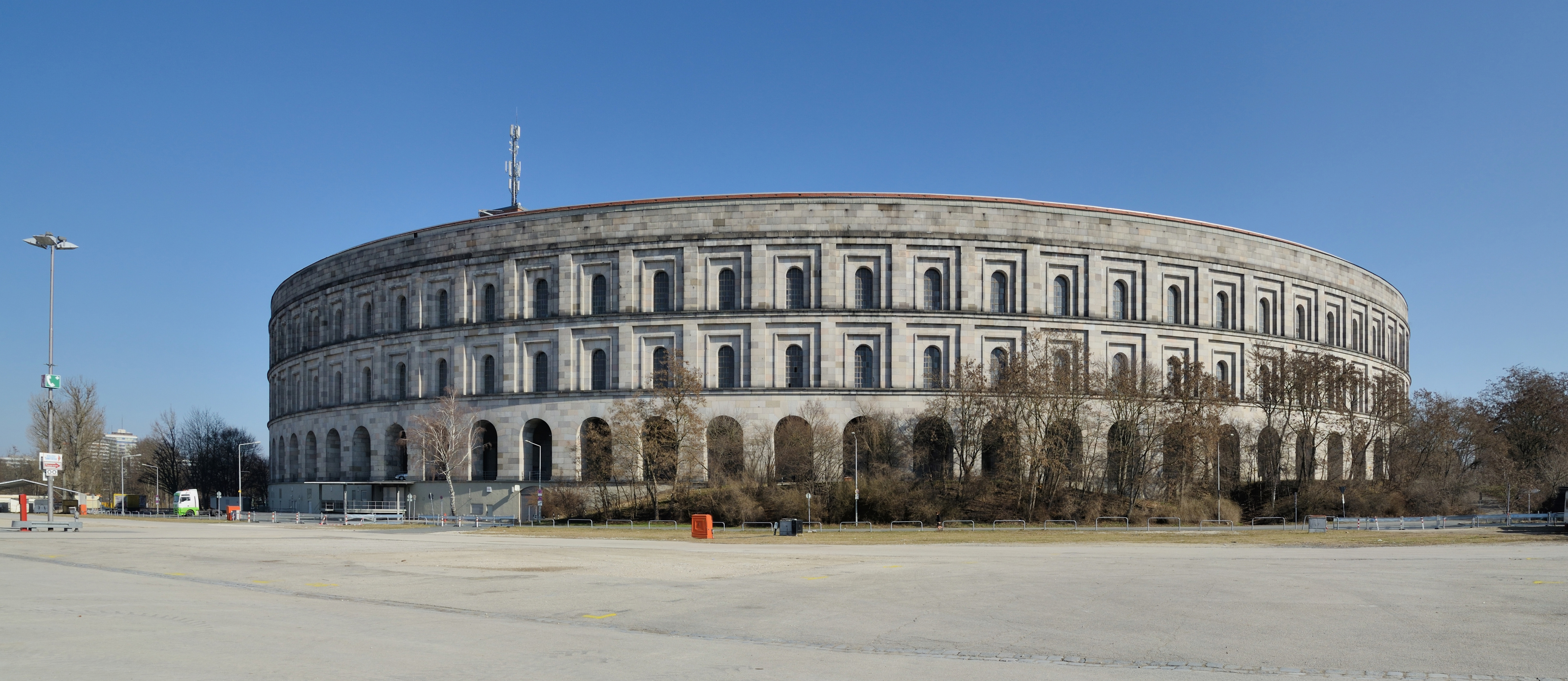 Nuremberg: Congress Hall on Nazi party rally grounds